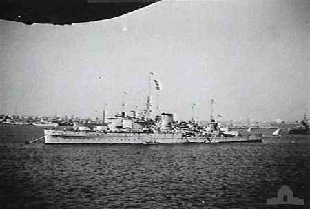 AWM Caption: ALEXANDRIA, EGYPT. 1940-08. SHIPS OF THE BRITISH MEDITERRANEAN FLEET AT ANCHOR. IN THE FOREGROUND IS THE CRUISER HMS ORION WITH HER SISTER SHIP HMS NEPTUNE AND THE SUBMARINE DEPOT SHIP HMS MEDWAY BEHIND HER. ON THE RIGHT IS THE CRUISER HMS LIVERPOOL. (NAVAL HISTORICAL COLLECTION).